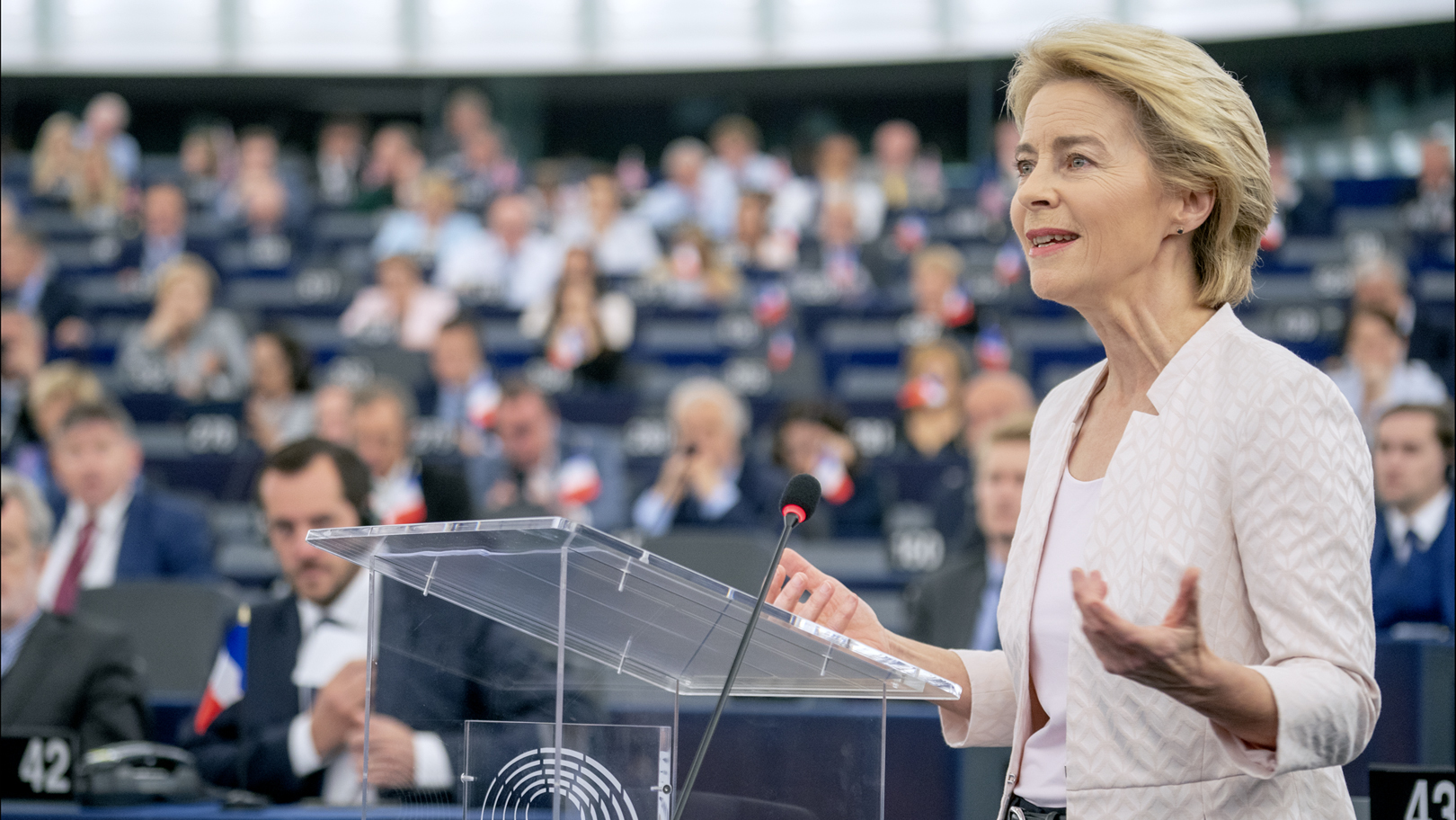 In a debate with MEPs, Ursula von der Leyen outlined her vision as Commission President. MEPs will vote on her nomination, held by secret paper ballot, at 18.00. Read more: This photo is free to use under Creative Commons license CC-BY-4.0 and must be credited: "CC-BY-4.0: © European Union 2019 – Source: EP". ( No model release form if applicable. For bigger HR files please contact: webcom-flickr(AT)